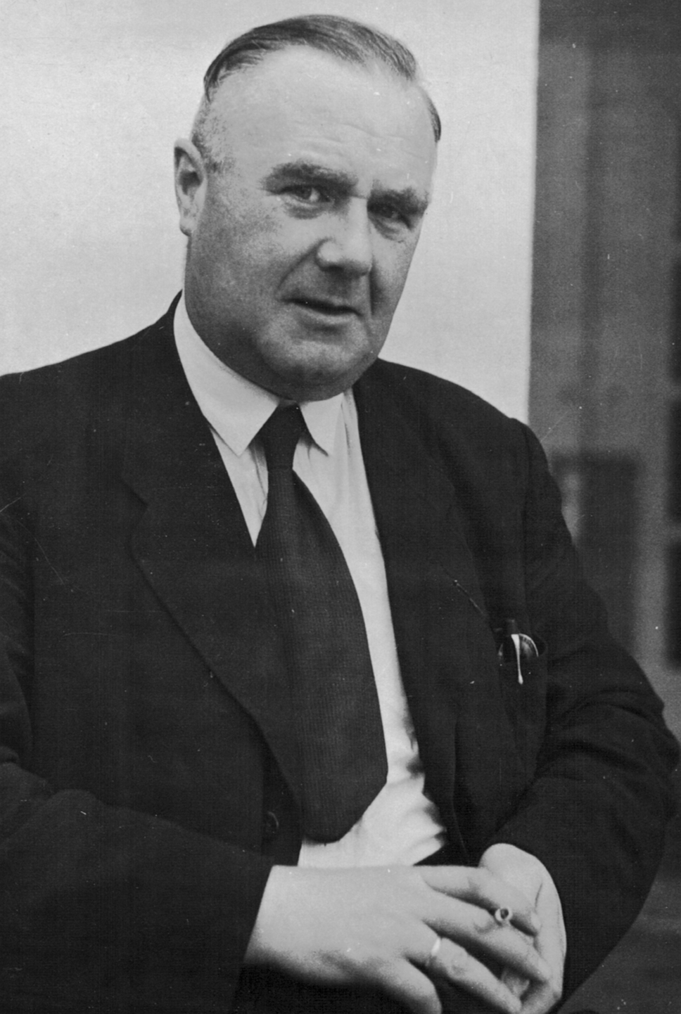 Superintendent Johannes Schulze at the "Evangelische Woche", Hannover/Germany, 1949